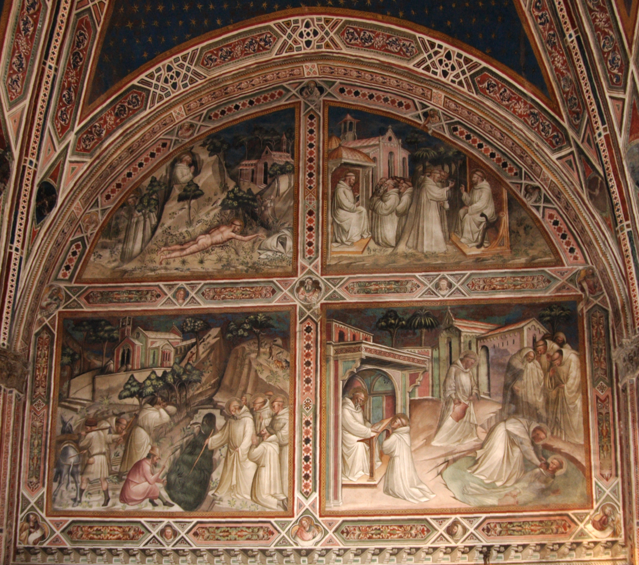 San Miniato al Monte (Florence) - Spinello Aretino fresco